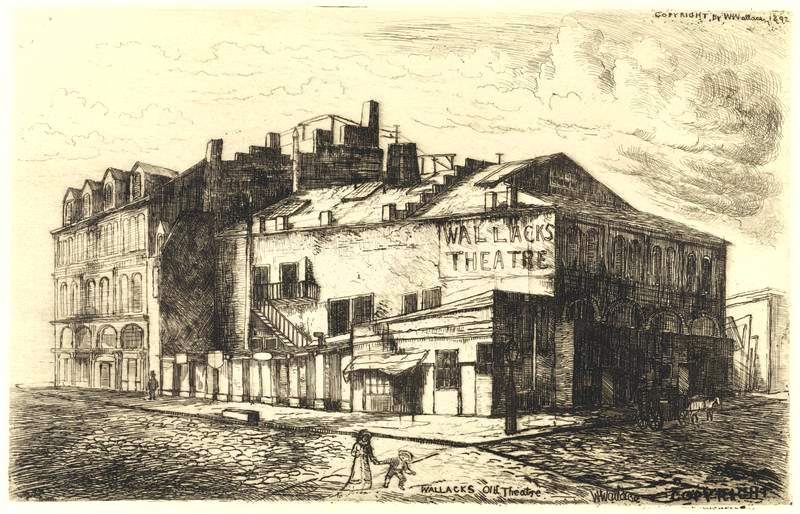 Image details from the New York Public Library Digital Gallery: Image Title: Wallacks Old Theatre / copyright by W. H. Wallace 1892. Creator(s): Wallace, William H. -- Artist Wallace, William H. -- Etcher Additional Name(s): Eno, Amos F., 1836-1915 -- Collector Depicted Date: 1870 Medium: Etchings Specific Material Type: prints Item Physical Description: 1 print : etching ; 23 x 31 cm. Standard Reference: Eno ; Eno 395 Source: The Eno collection of New York City views. Location: Stephen A. Schwarzman Building / Print Collection, Miriam and Ira D. Wallach Division of Art, Prints and Photographs Catalog Call Number: MEZN Eno 395 Digital ID: 1659282 Record ID: 1803642 Digital Item Published: 12-15-2008; updated 3-25-2011